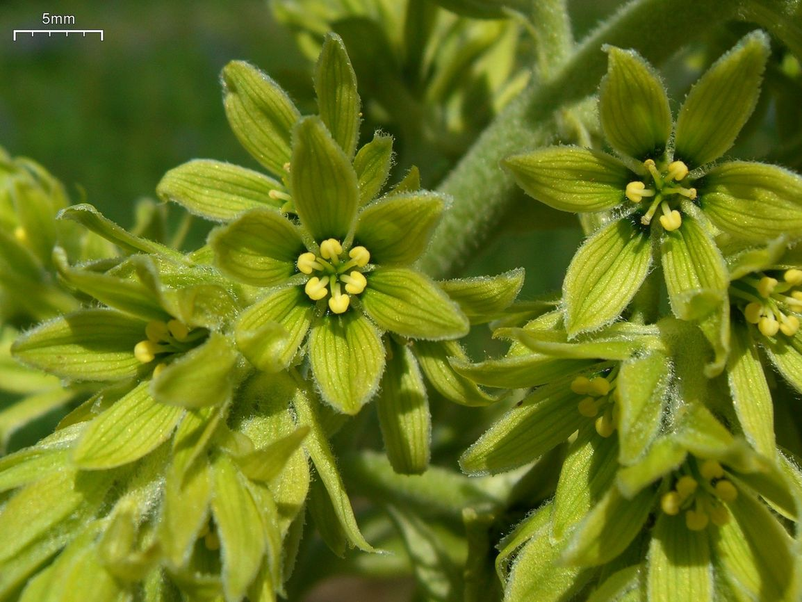 Veratrum viride Aiton 20090720.52 Table Mountain, Wells Gray Park, BC